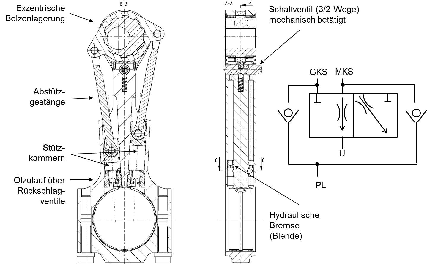 VCR conrod first prototype tested within Phd thesis K. Wittek in 2005